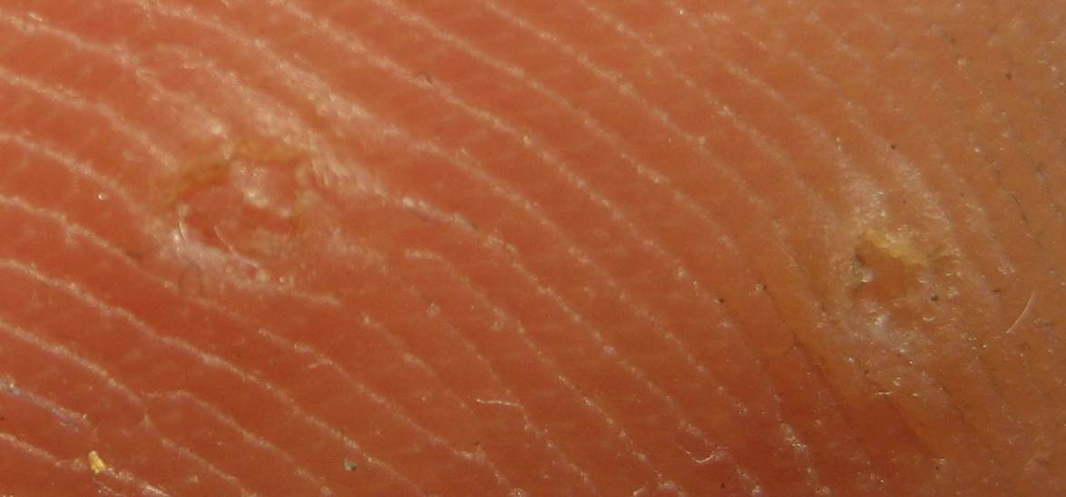 Plantar warts in their very initial phases of growth.